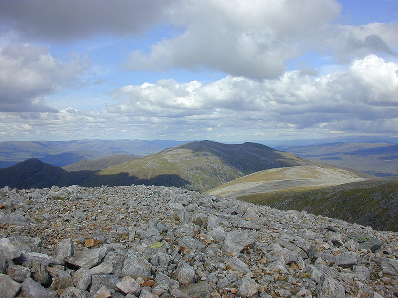 View northeast from Beinn a' Chlachair With the northeast ridge on the right and Geal Charn in the distance; Creag Pitridh is in dark shadow on the left.